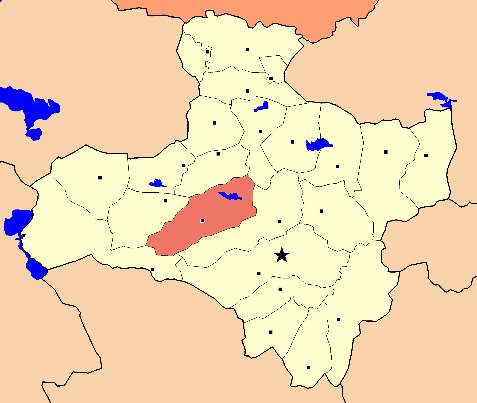 Erdenekhairkhan (sum of Zavkhan Aimag)